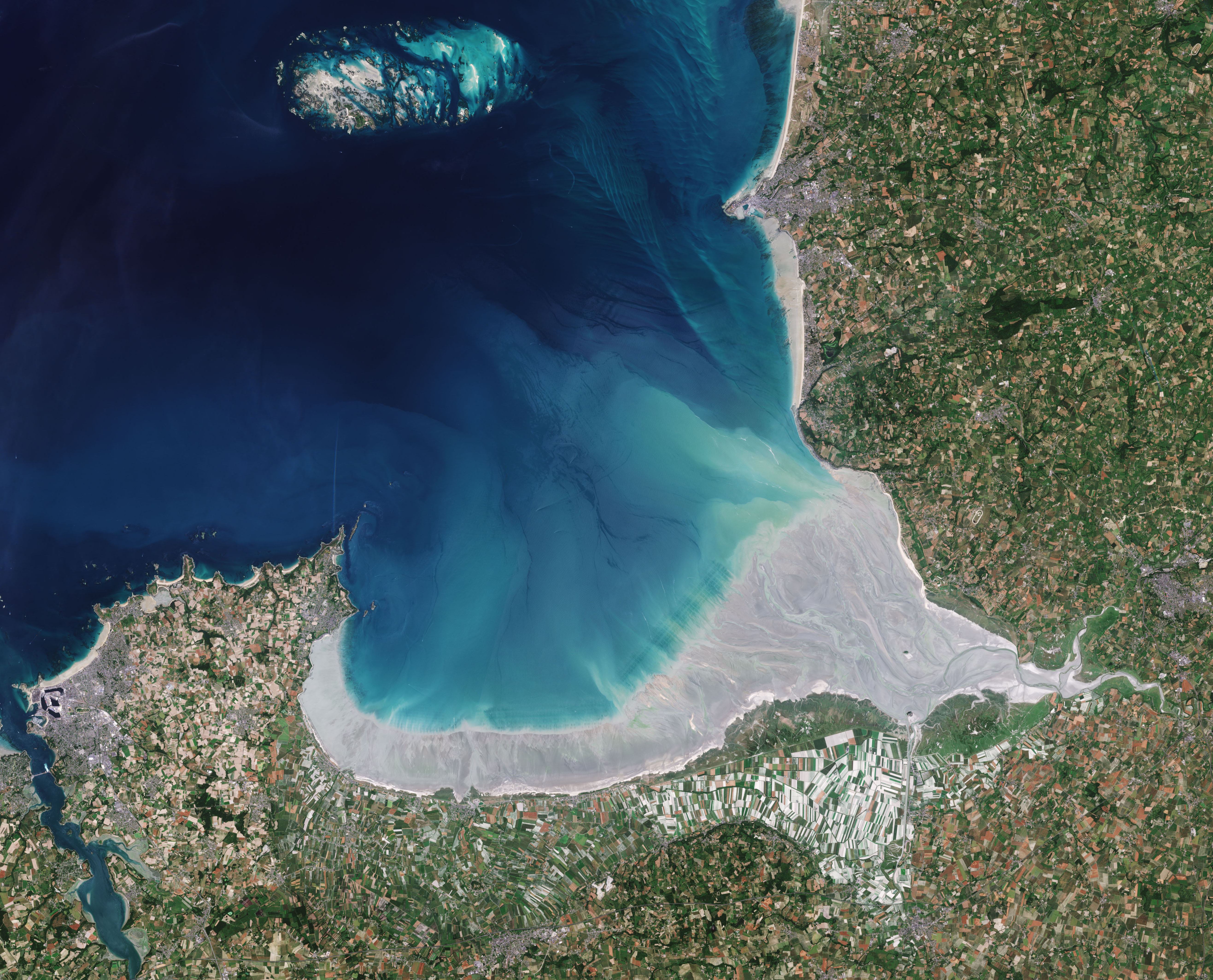 The Copernicus Sentinel-2 mission takes us over the Bay of Mont Saint-Michel in northern France. Lying between Brittany to the west and Normandy to the east, this remarkable bay, which is listed as a UNESCO world heritage site, sees some of the biggest tides in continental Europe. There can be up to 15 m difference between low and high water. When spring tides peak, the sea recedes about 15 km from the coast and when it returns it does so very quickly, making it a dangerous place to be. Sentinel-2 captured this image when the tide was out so that the vast area of sand dunes is exposed cut by meandering channels of shallow water. Three rivers empty into the bay: the Couesnon, the Sée and the Sélune. The famous rocky islet of Mont Saint-Michel, visible as a small dark spot in the south of the bay, is about 1 km from the mouth of the Couesnon. Home to a Benedictine monastery and village, Mont Saint-Michel is also a UNESCO world heritage site and a mecca for tourists. The bay, however, has been prone to silting up in the last couple of centuries. Actions by man, including farming and the building of a causeway to the island monastery, have added to this problem. A major campaign has ensured that Mont-Saint-Michel preserves its maritime character and remains an island. The main river into the bay, the Couesnon, for example, is being left to flow more freely so that sediments are washed out to sea. This image, which was captured on 21 June 2017, is also featured on theEarth from Space video programme.